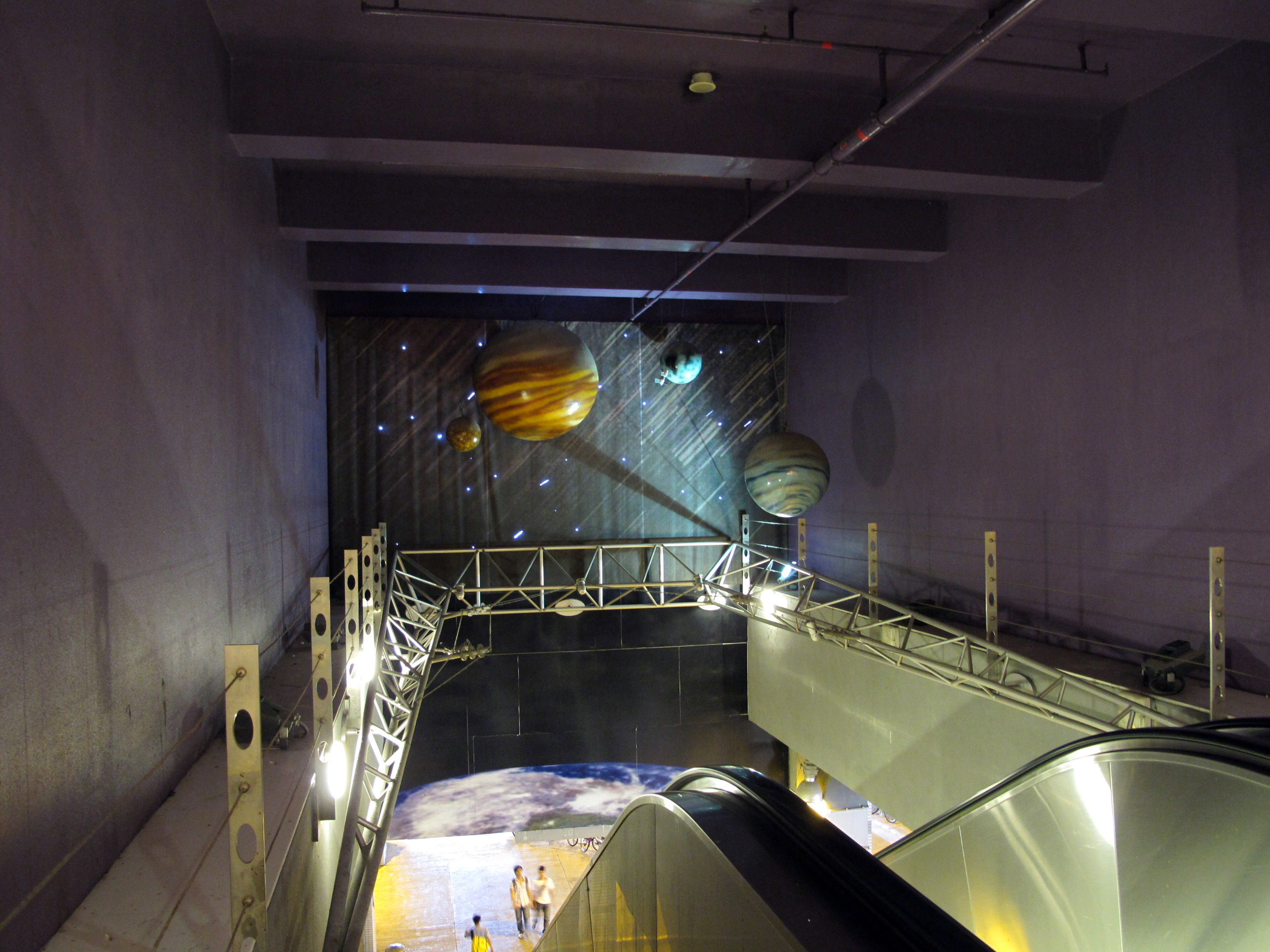 Kin Ming Estate Escalator Wall decoration